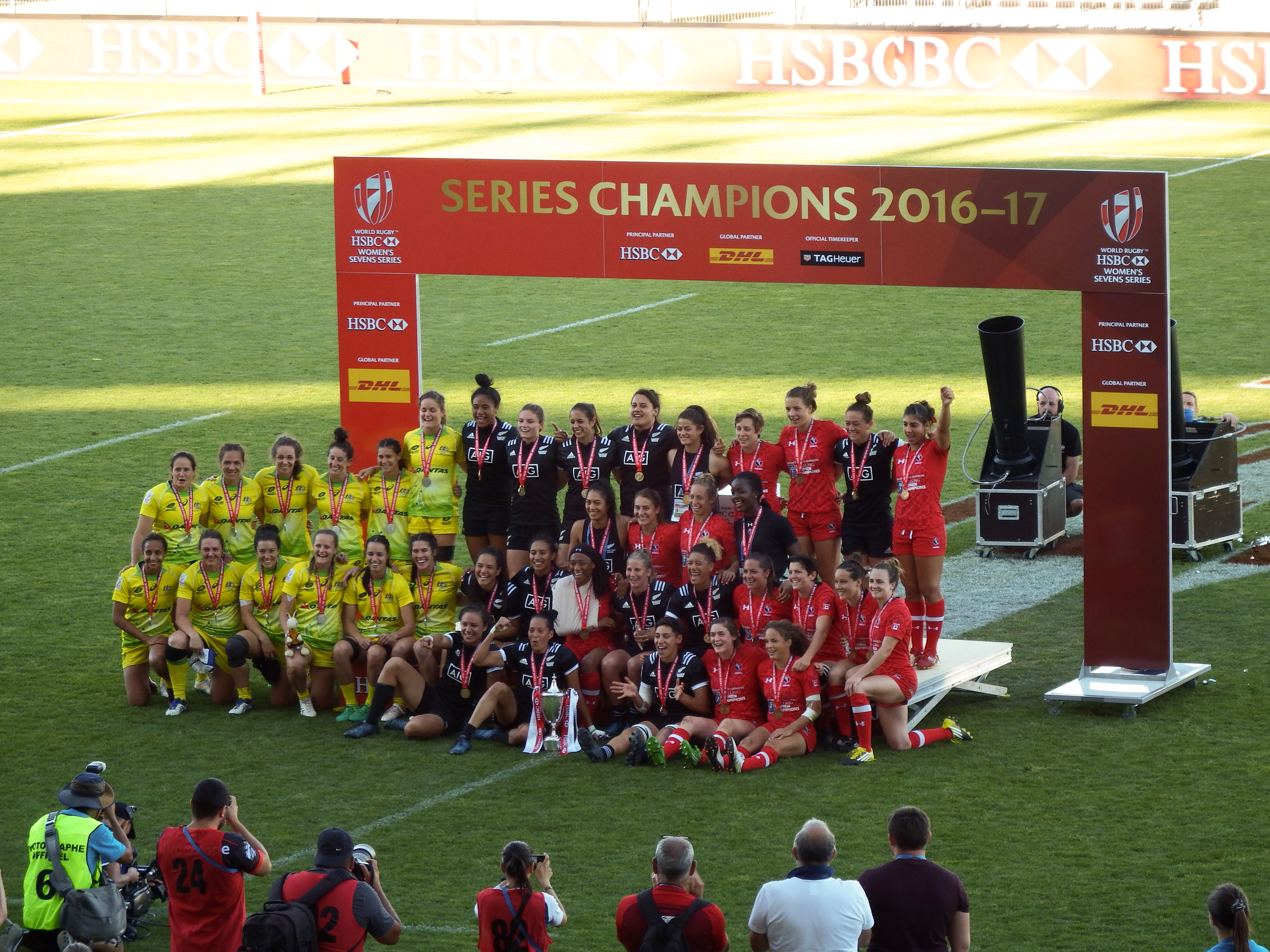 2017 France Women's Sevens — 25 June 2017, Stade Gabriel Montpied. Match between: New Zealand women's national rugby sevens team — Australia women's national rugby sevens team